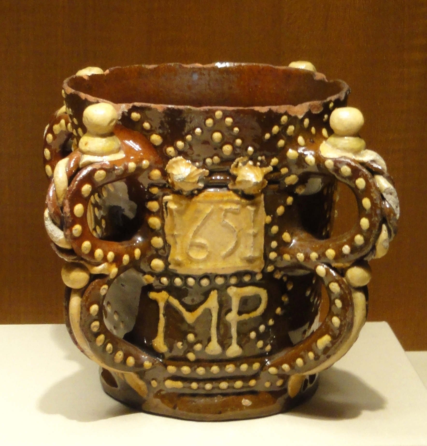 Exhibit in the Nelson-Atkins Museum of Art, Kansas City, Missouri, USA. ; I took this photograph and release it into the public domain.